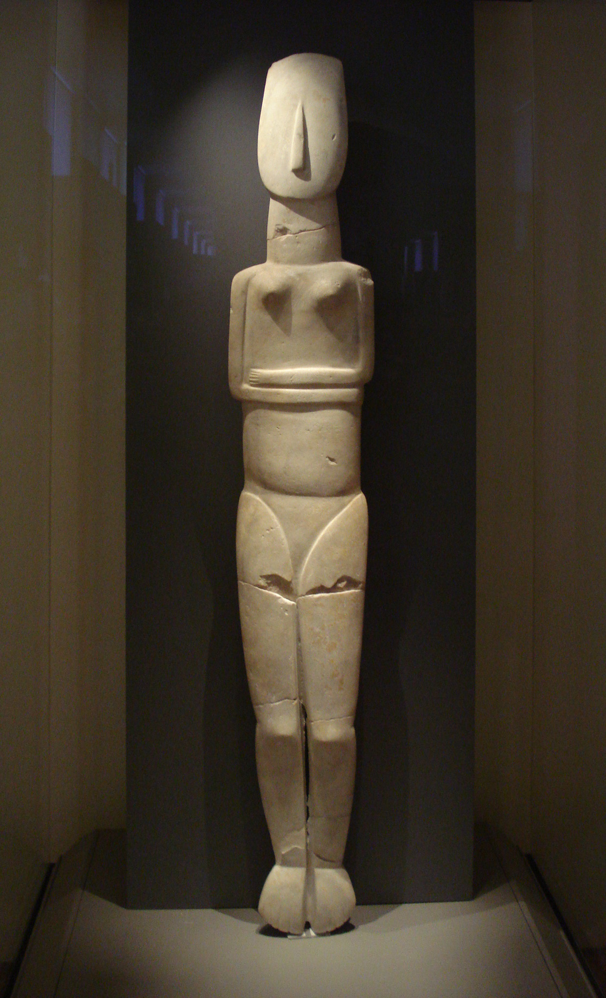 Cycladic female statue, Parian marble; 1,5 m high (largest known example of Cycladic sculpture). From Amorgos, Early Cycladic II period (Keros-Syros culture), 2800-2300 BC, Spedos variation. National Archaeological Museum of Athens